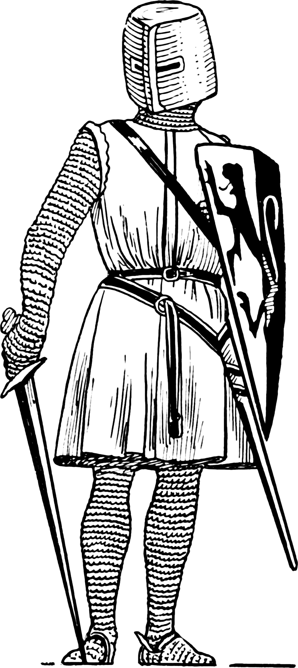 Line art representation of Surcoat